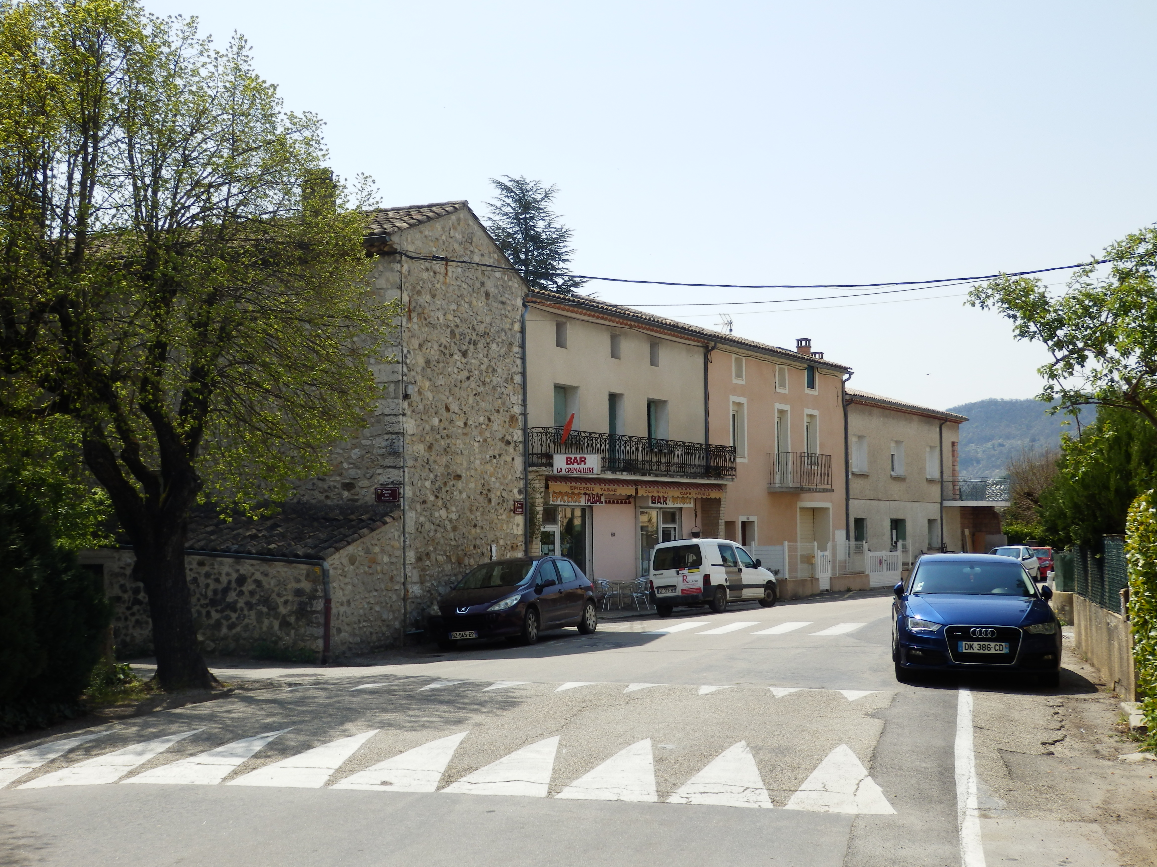 Main street of Condorcet, Drôme, France